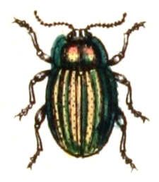 Chrysolina cerealis, from Calwer's Käferbuch, Table 44, Picture 9. Taxonomy was updated to 2008, using mostly the sites Fauna Europaea and BioLib. Please contact Sarefo if the determination is wrong!